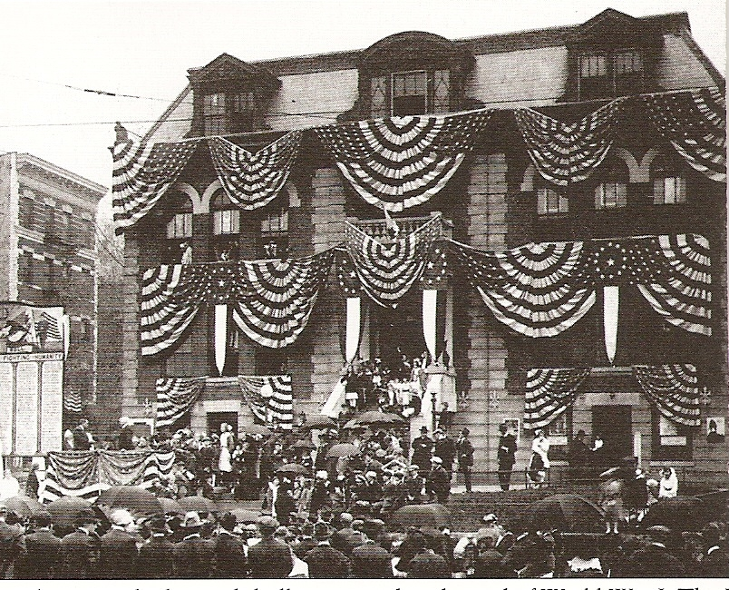 Edgewater Boro Hall with bunting and celebrating crowd at end of WW I